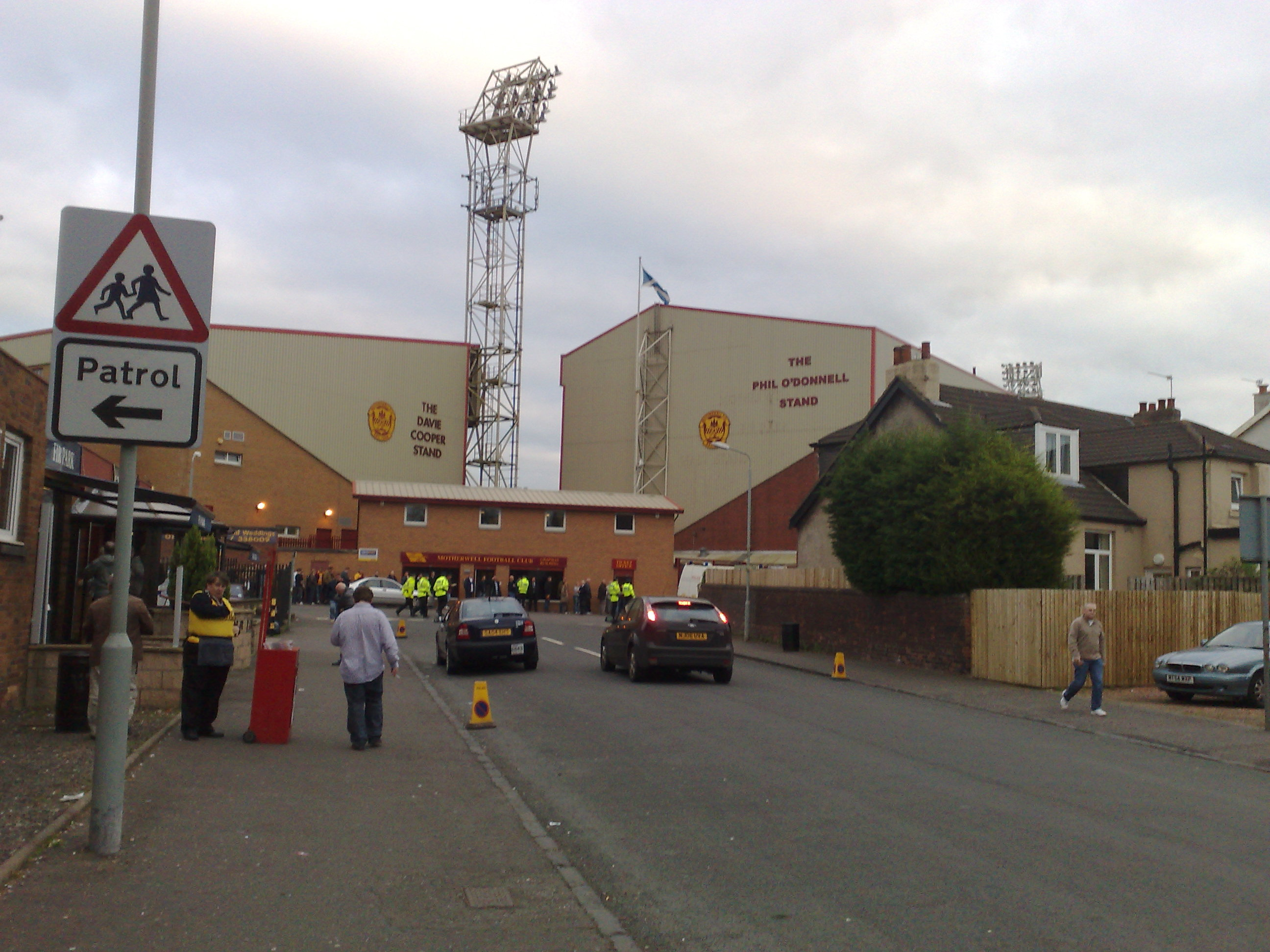 Fir Park Stadium, Motherwell. View of Davie Cooper Stand and Phil O'Donnell Stand.